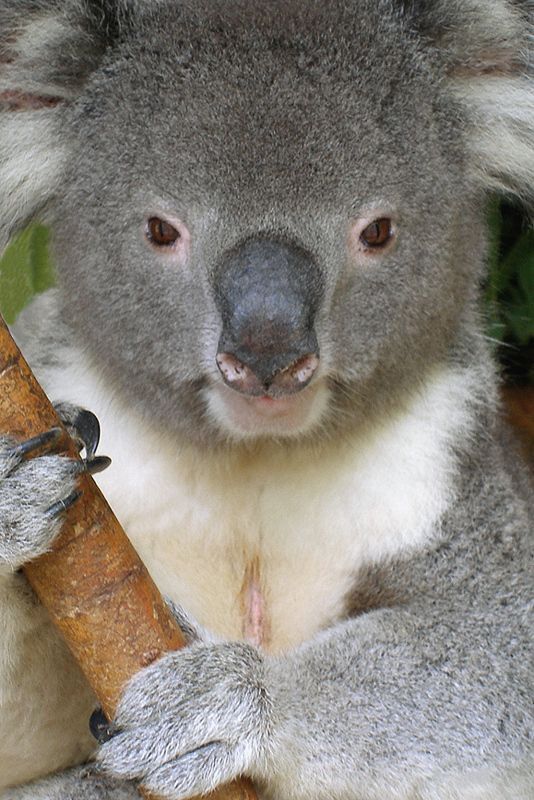 Lone Pine Koala Sanctuary, Queensland, Australia, adult male koala with scent gland visible on chest